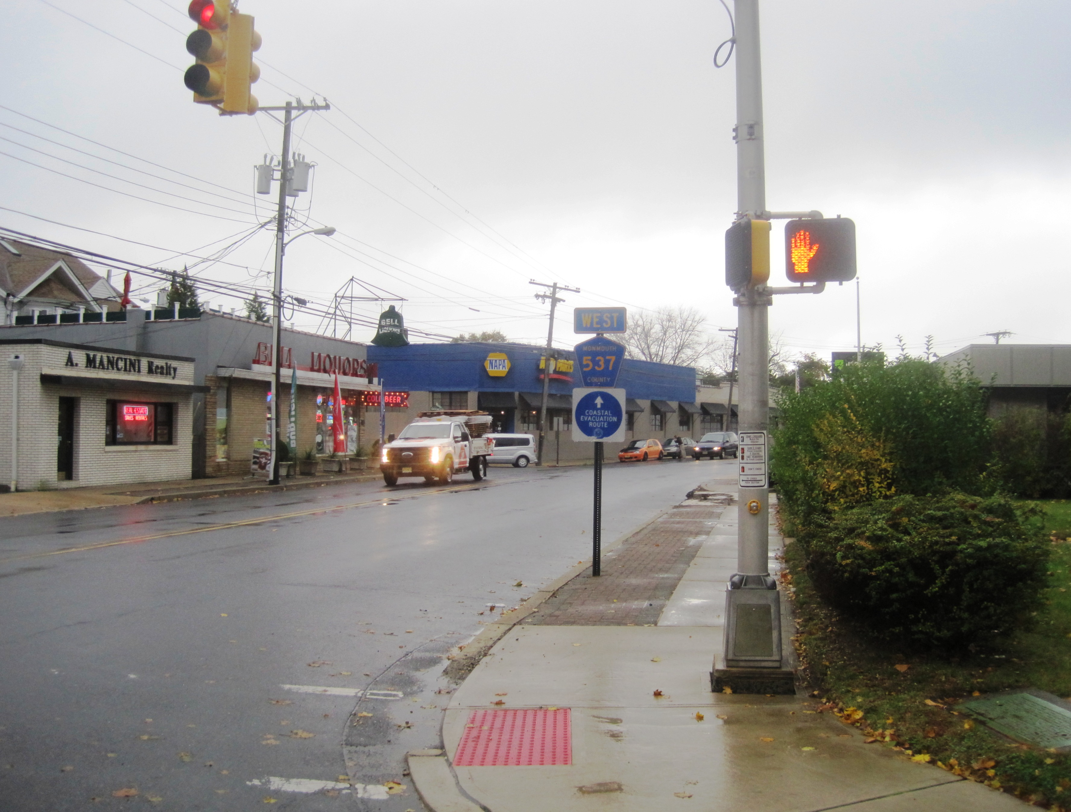 Photo showing the original eastern terminus of County Route 537 in Long Branch, New Jersey. Photo taken looking west from the intersection of Broadway (CR 537) and Myrtle Avenue. Note that as of November 2017, this road is signed as CR 537 but has been legislatively part of CR 547 since February 2017.[1]